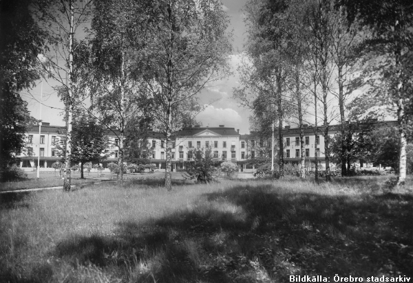 Hålahult sanatorium, 20 lm north of Örebro, Sweden